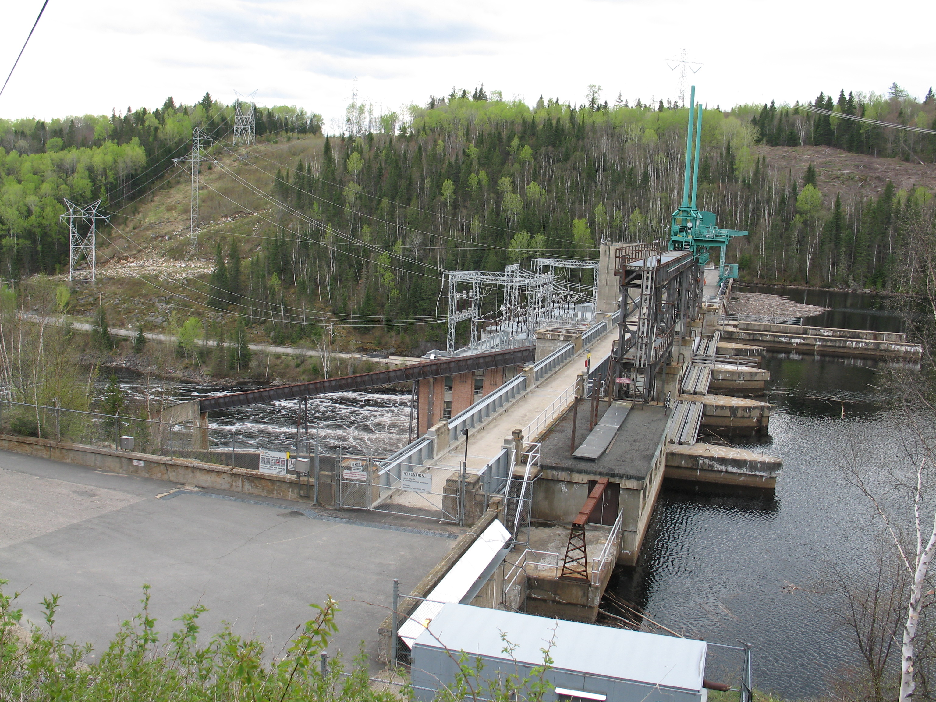 Hydro-Québec's Rapide-Blanc generating station, north of La Tuque, Quebec. This 204-MW power station has been inaugurated in 1934.